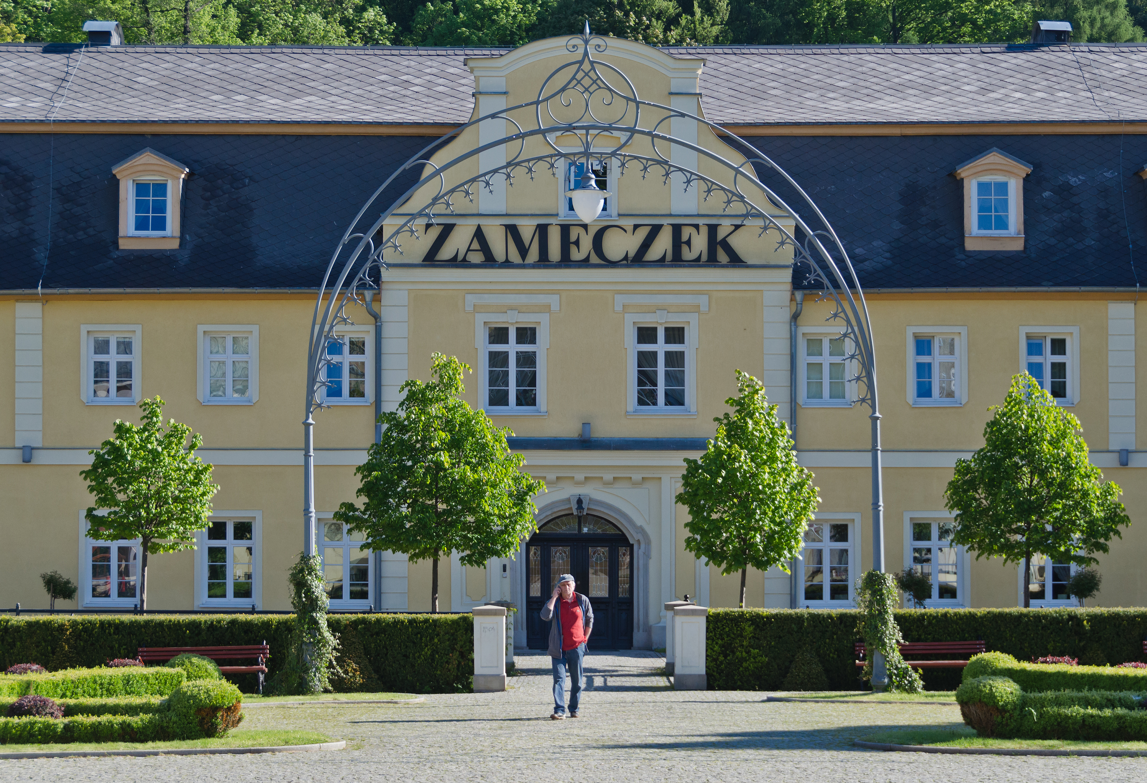 Zameczek Hotel in Kudowa-Zdrój